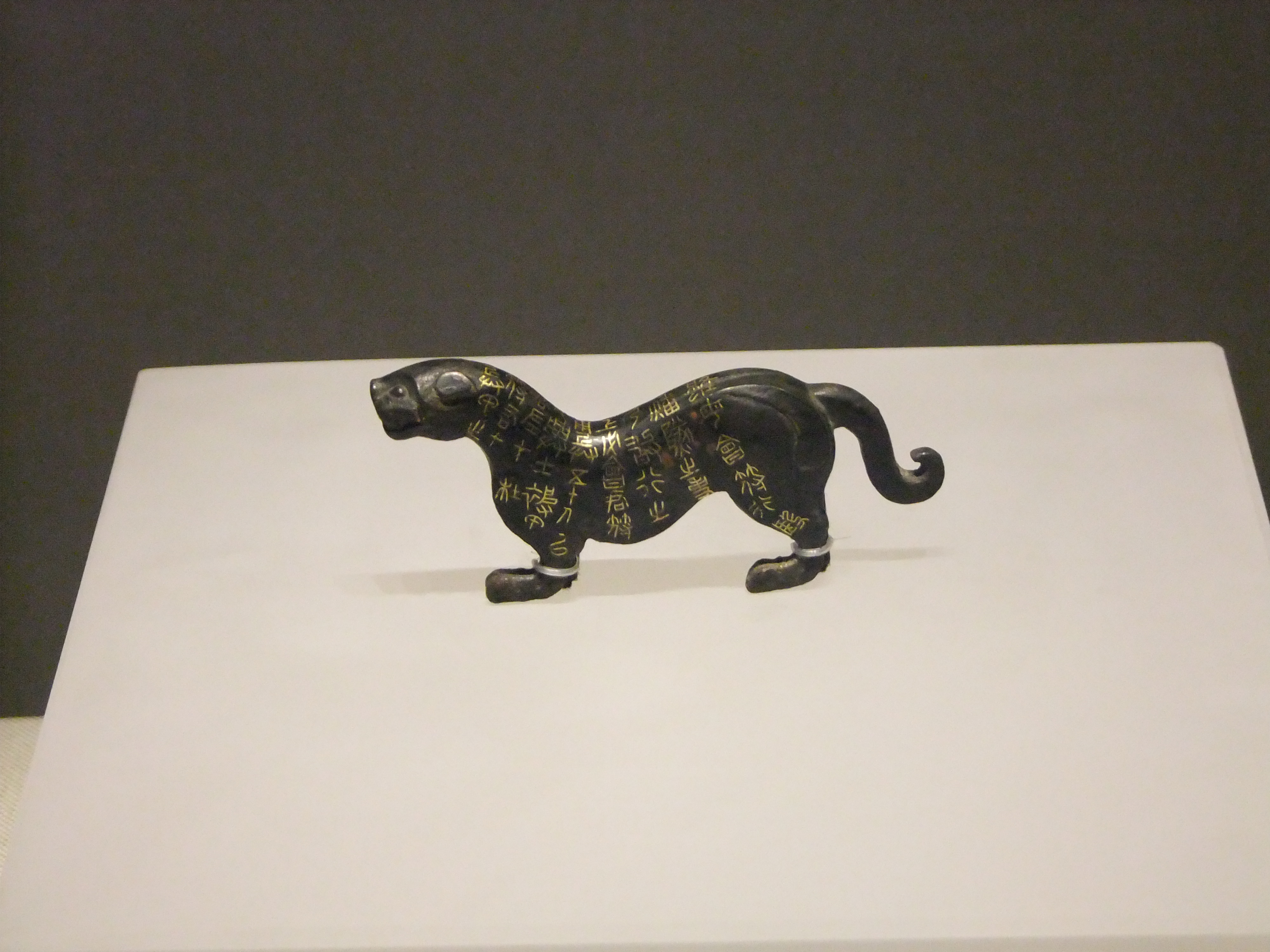 The commander's seal - Du Hu Bing Fu, Warring States period (453-221 B.C.), excavated in 1975 in Xi'an, Shaanxi. It is preserved in Shaanxi History Museum. Photo taken in February 2018 in Hunan Museum Exhibition, Changsha, Hunan, China.